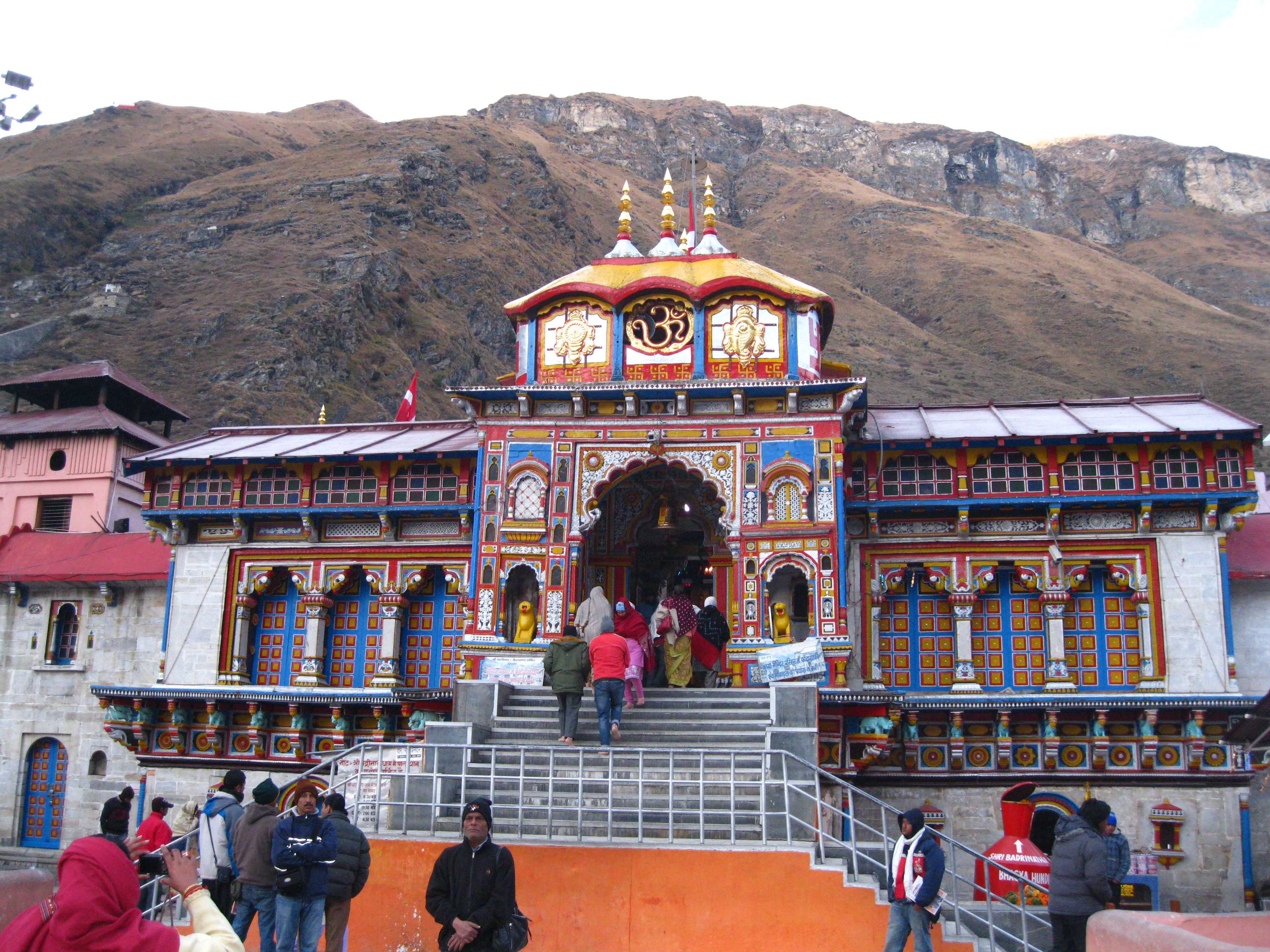 Badrinath temple